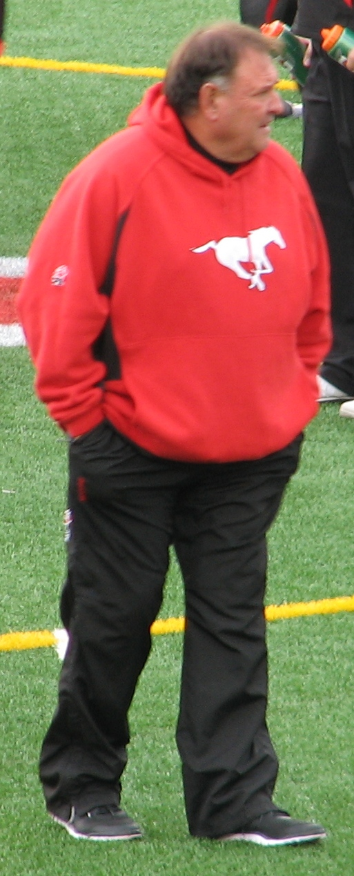 Rich Stubler, Defensive Coordinator for the Calgary Stampeders, on the field at McMahon Stadium before the Calnadian Football League's Western Division Final on 23 November 2014.